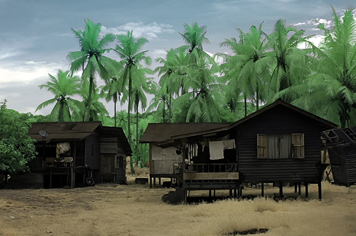 Cherating Village, Kuantan: taken with an infrared set up